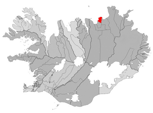 Based on Municipalities of Iceland.png.